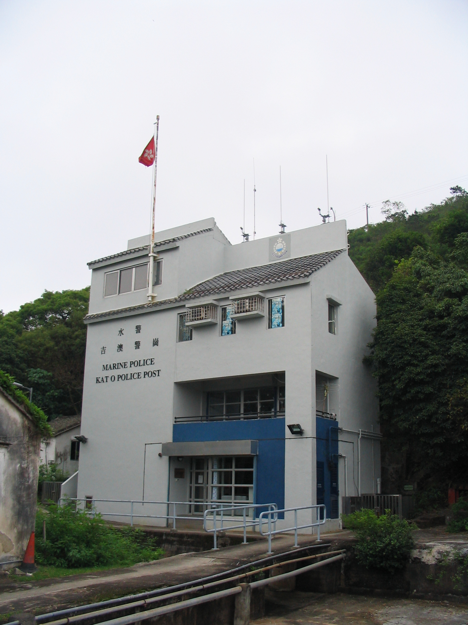 Kat O Marine Police station in Hong Kong.